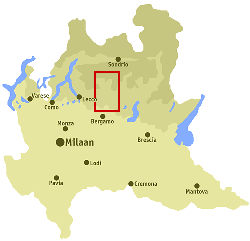 Position of the valley Val Brembana